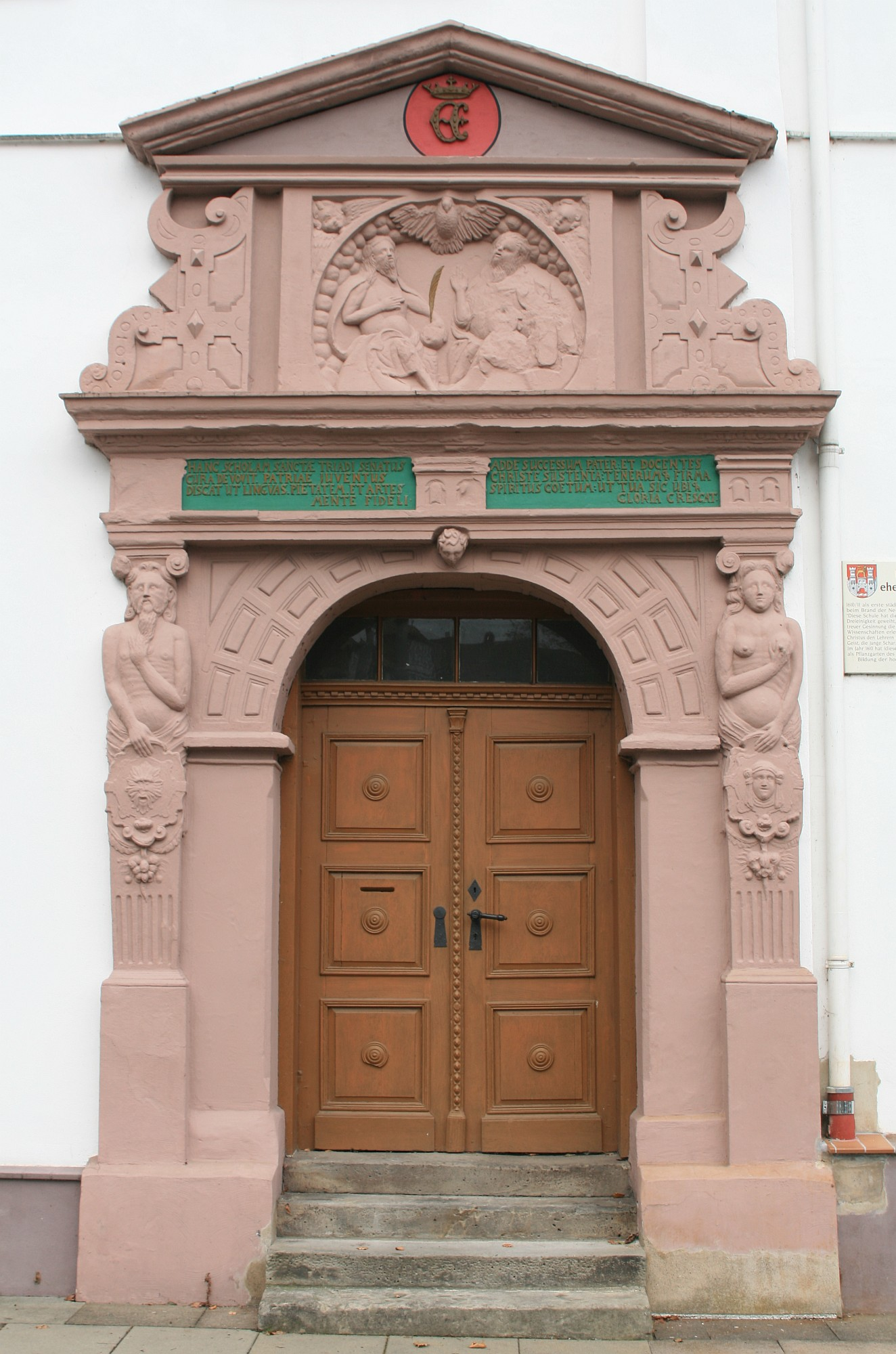 Portal of the (hist.) municipal grammar school in Einbeck, Germany. Built in 1610.